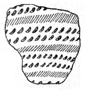 Drawing of a ceramic piece